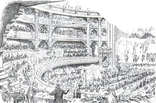 Alhambra Theatre (Brussels): interior